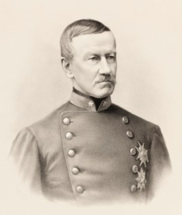 Note: For documentary purposes the original description has been retained. Factual corrections and alternative descriptions are encouraged separately from the original description.Porträtt av generalmajor Oskar Magnus Björnstjerna (1819-1905), 1881. Nyckelord: Frisyrer, Föremålsbild, Uniformer